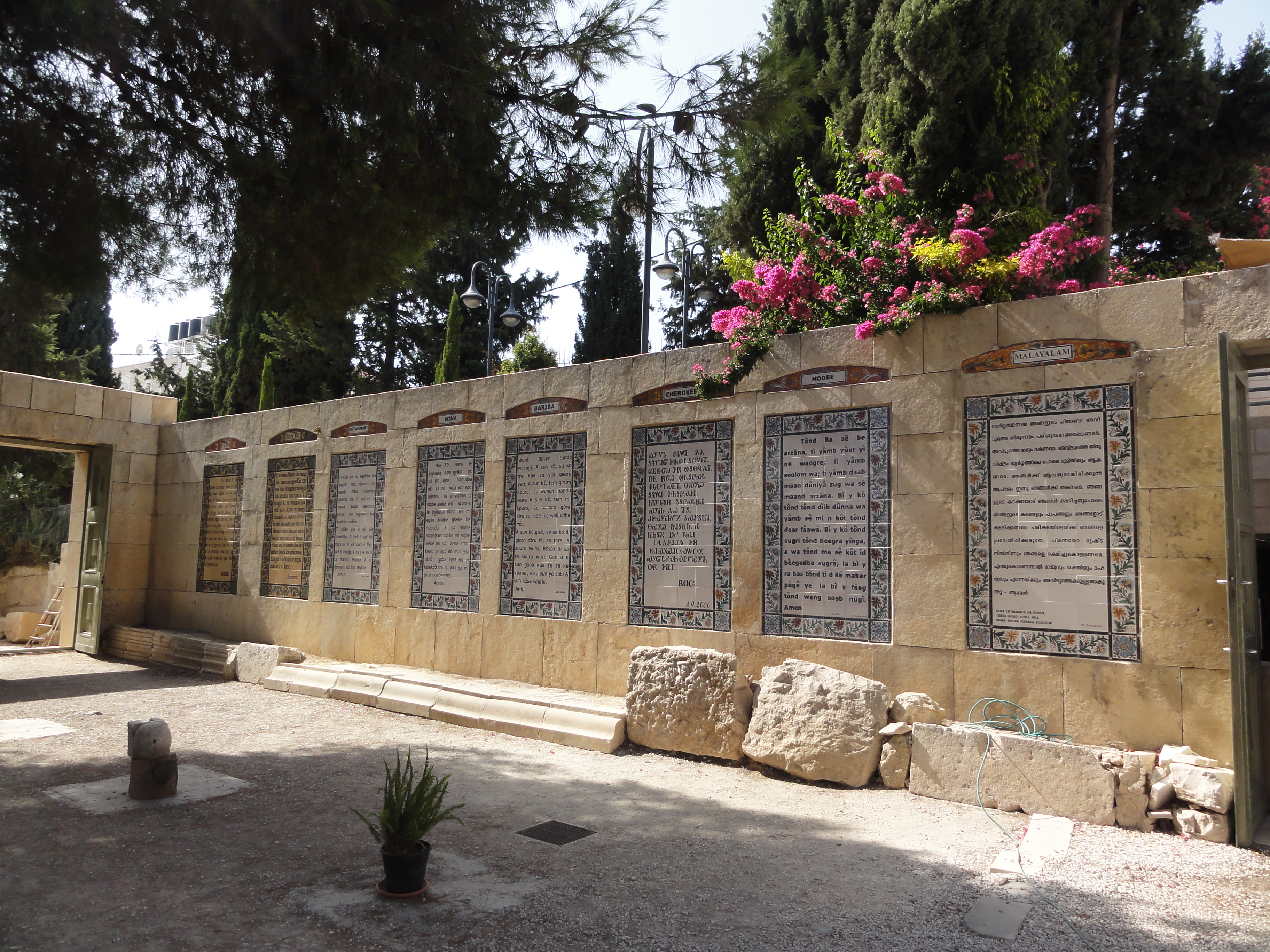 Church of the Pater Noster, Jerusalem Info GPS data may be inaccurate. EXIF data regarding date and time may be inaccurate.